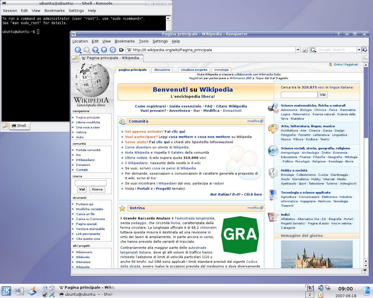 A screenshot of Kubuntu 7.04